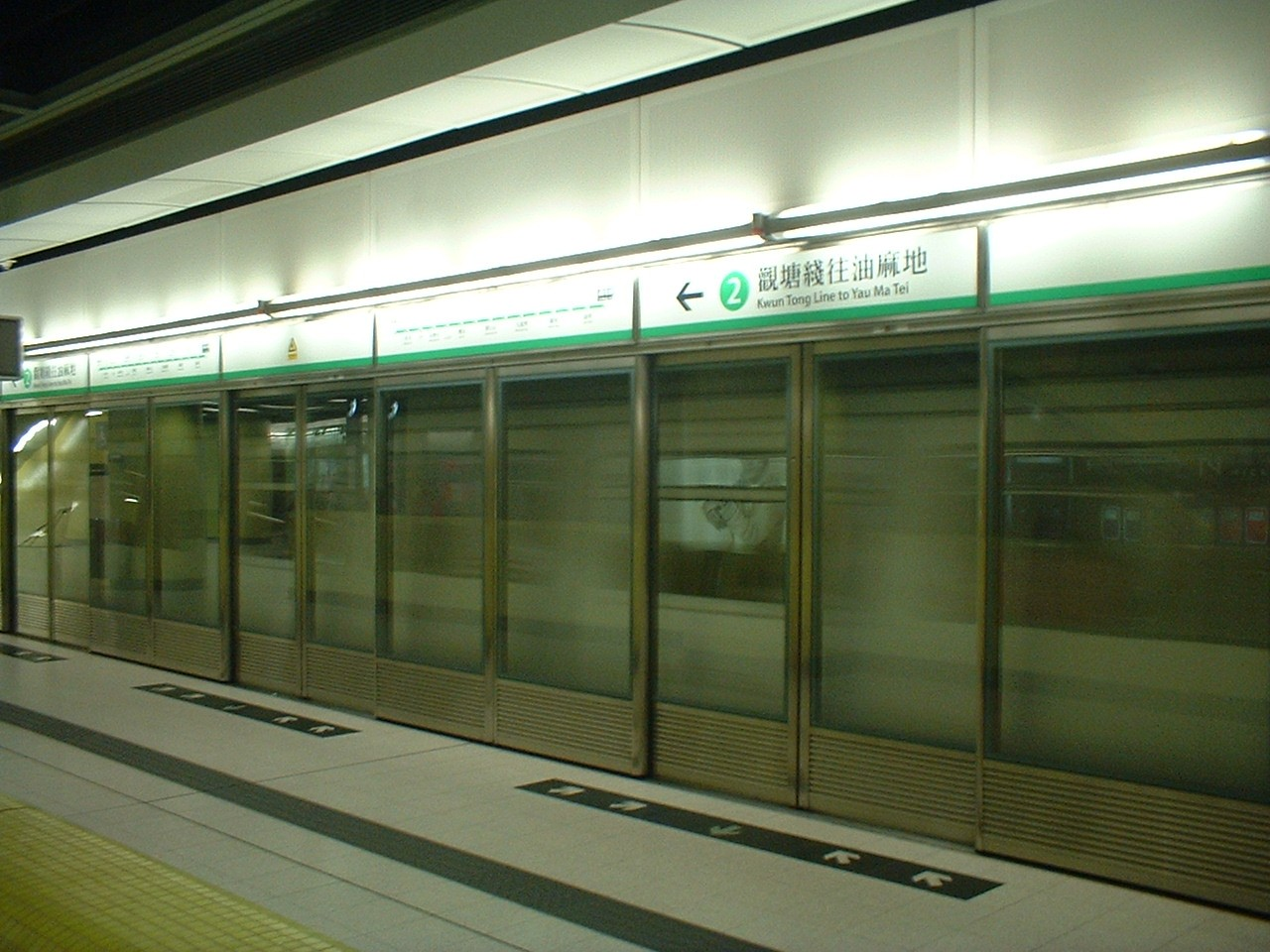 Platform screen doors at MTR Tiu Keng Leng station